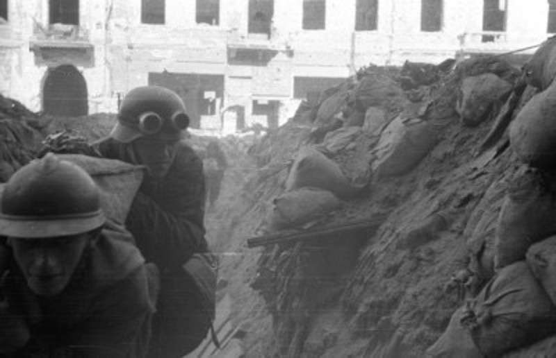 WarsawUprising: Soldiers from "Gustaw" batallion cross Aleje Jerozolimskie through a trench, while carrying sacs of grain from Haberbusch Magazines. The trench between buildings at 22 and 27 Aleje Jerozolimskie was protected by barricades on both sides, and was under constant fire from German forces from Bank Gospodarstwa Krajowego and the Main Rail Station